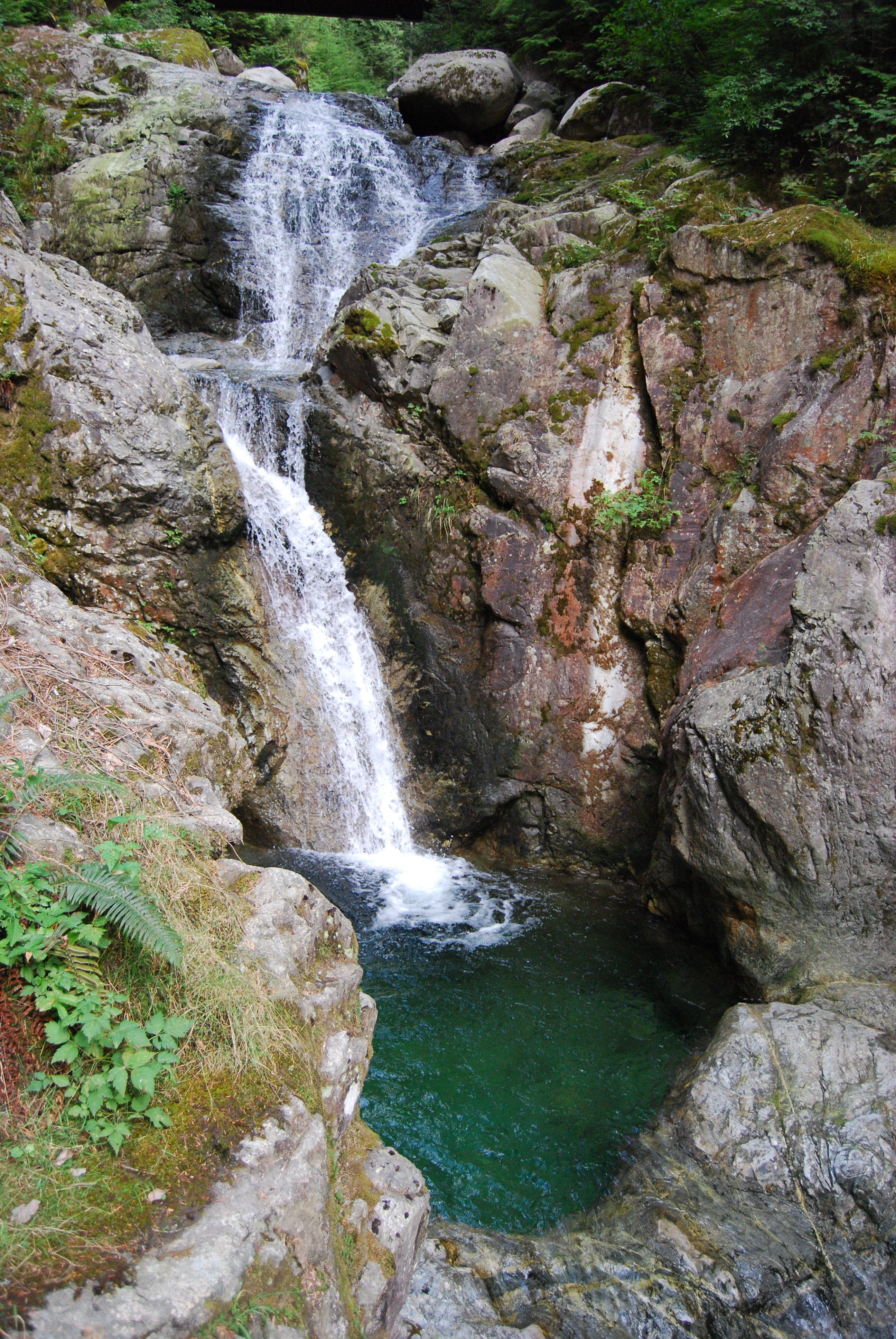 A picture of McDonald Falls, located in David Lake Provincial Park. Photo take Aug 30, 2012.